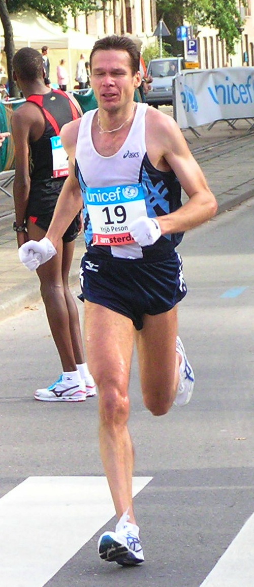 Finnish athlete Yrjö Pesonen at the 2008 Amsterdam Marathon.